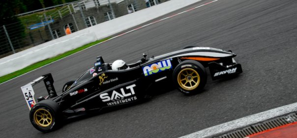 kristjan einar british f3 spa